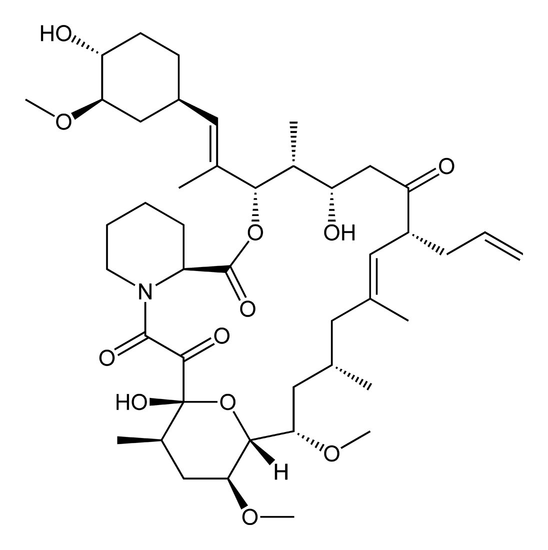 Skeletal formula of the tacrolimus molecule, based on a diagram from Acta Cryst. (1995). D51, 522-528